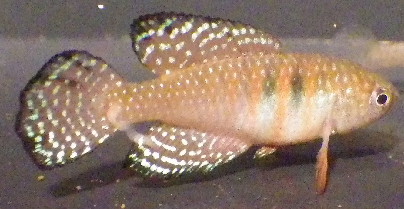 Male Hypsolebias magnificus Malhada